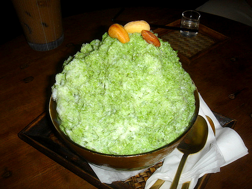 Green tea bingsu (or nokcha bingsu), a Korean shaved ice dessert made with green tea powder served at bloom & goute at 545-24 Sinsa-dong, Seoul, South Korea.